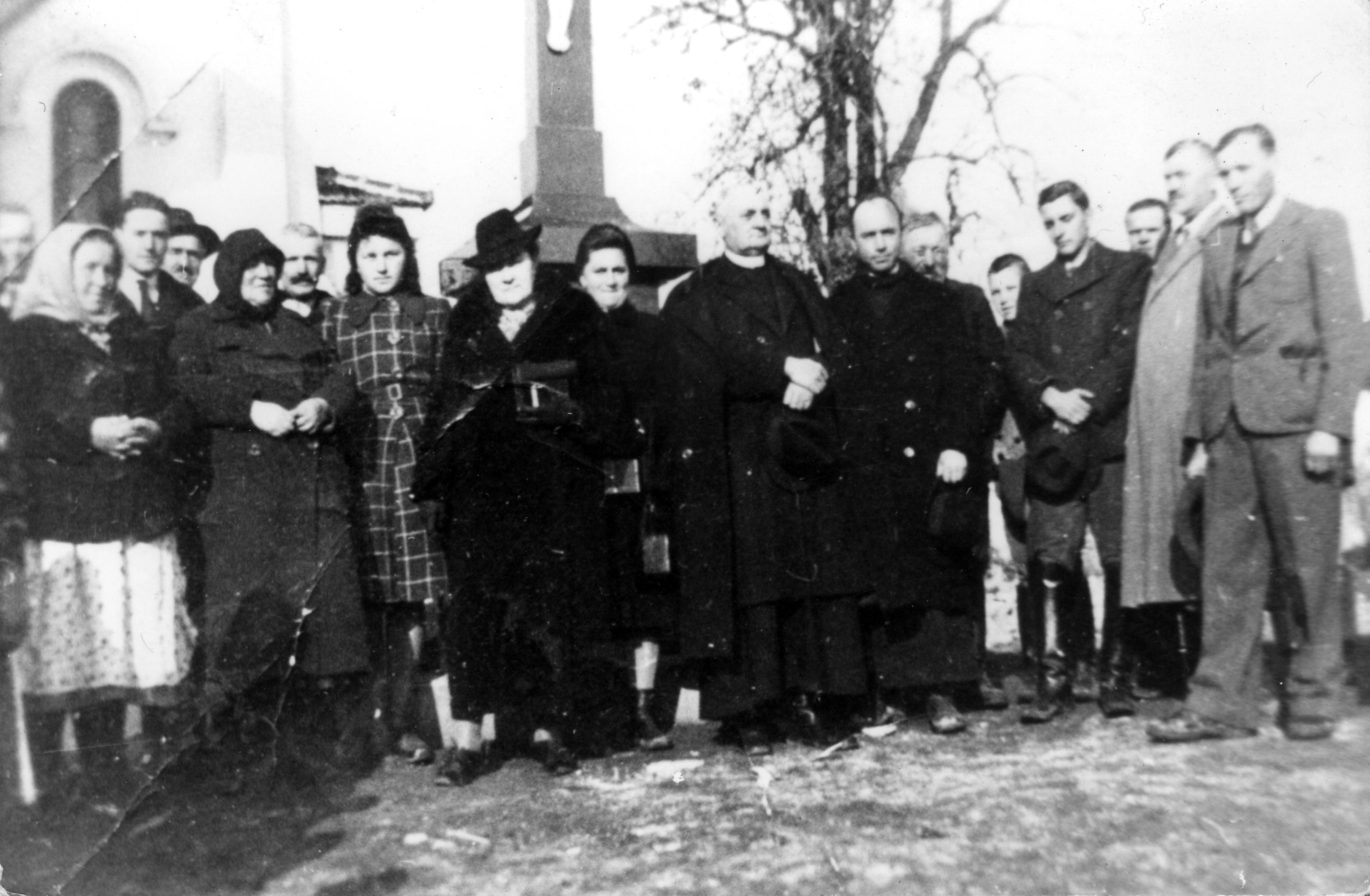 In the yard of the Greek Catolic Church in Bocşa